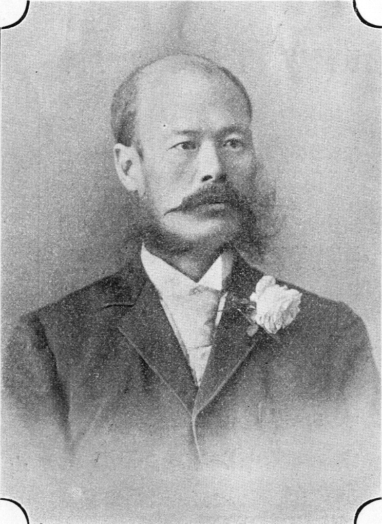 Suzuki Jūbi, Vice-Minister of the Interior